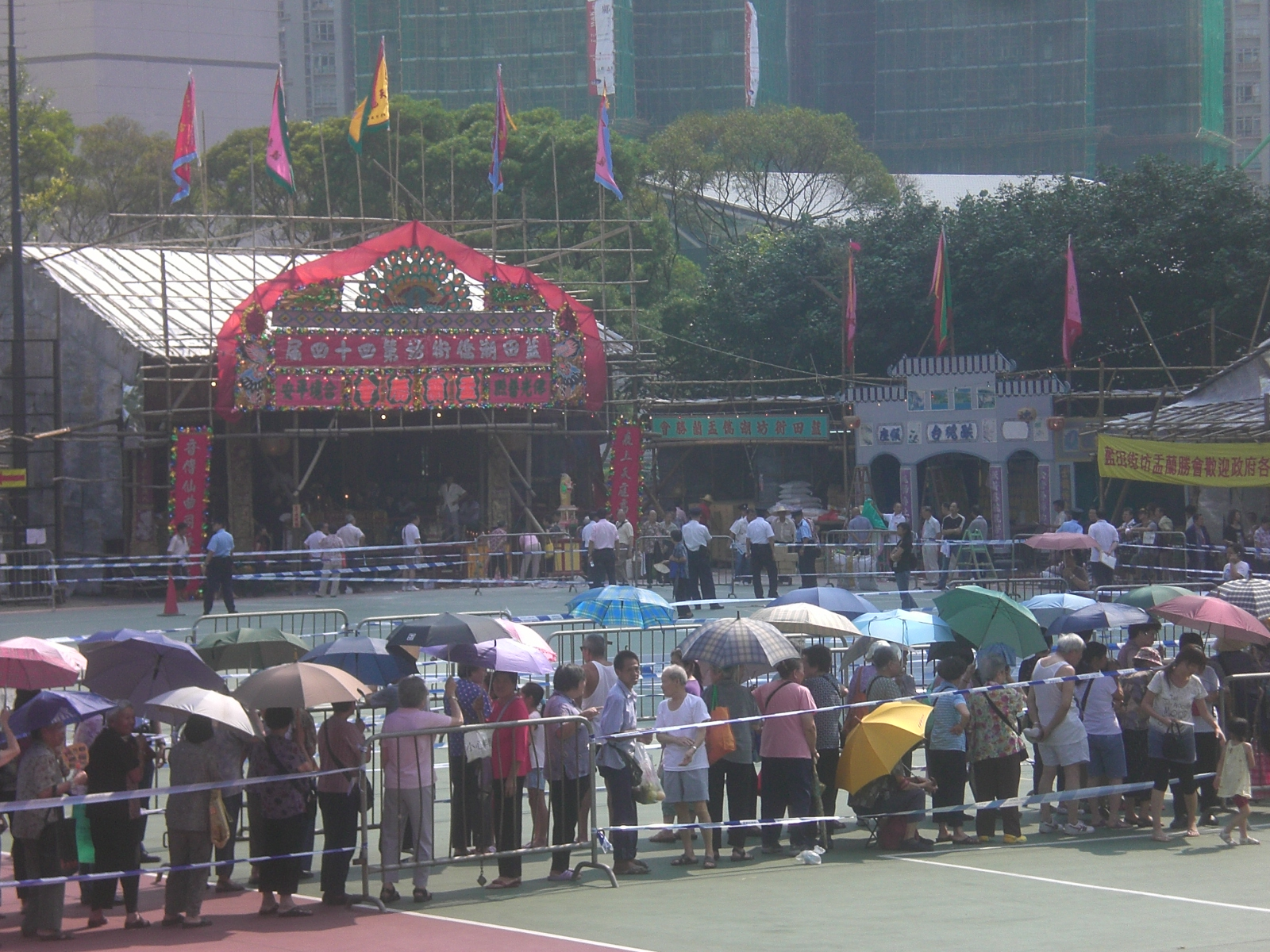 藍田 盂蘭節 藍田配水庫大球場 排隊人龍長者等派米